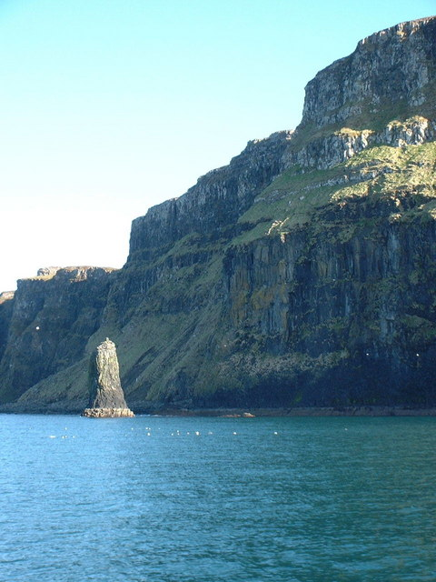 Iorcail